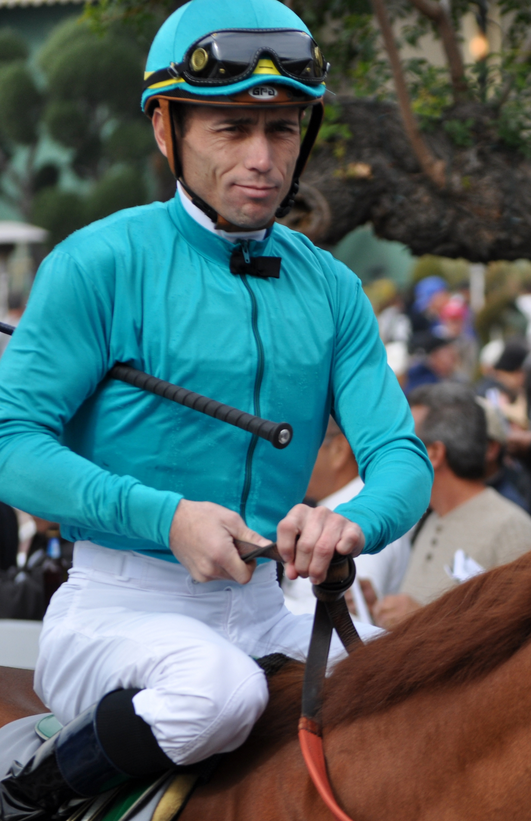 Garrett Gomez heads to the track aboard Cookie Rules in the first race at Santa Anita on opening day.